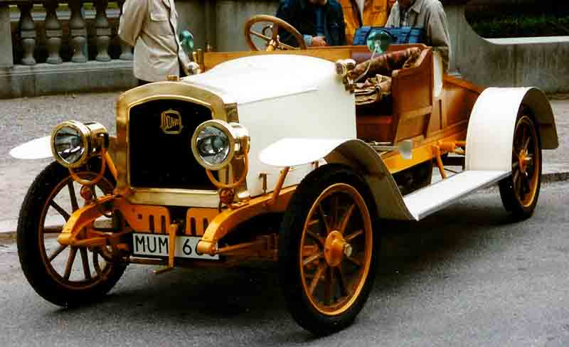 Delahaye Type 32 2-Seater 1910